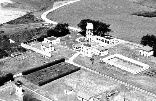 Public Domain statement here; CIRCA 1951 OF THE TABLE BLUFF LIGHTHOUSE